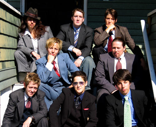 Drag Kings, All the Kings Men Drag King Performance Troupe